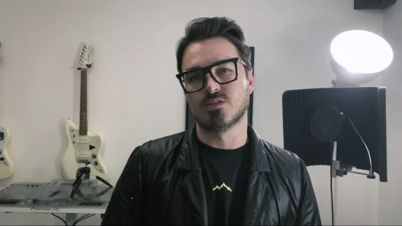 Brandon Smith, the solo artist of the electronic rock preject, The Anix